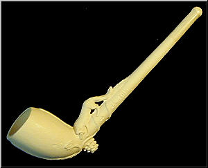 Clay Pipe